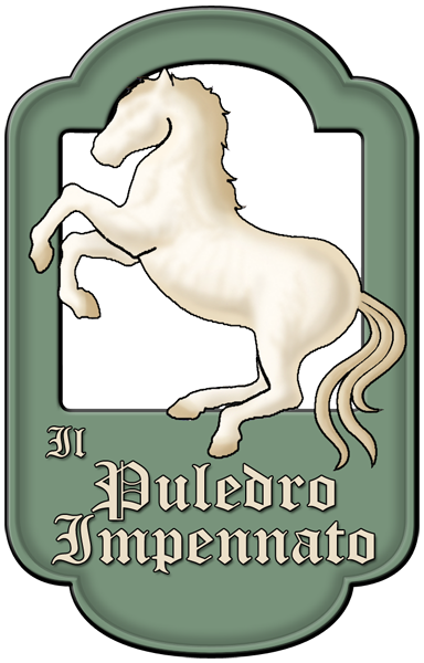 Sign of the inn 'The Prancing Pony', in the fictional town Bree, in J. R. R. Tolkien's Middle-earth.